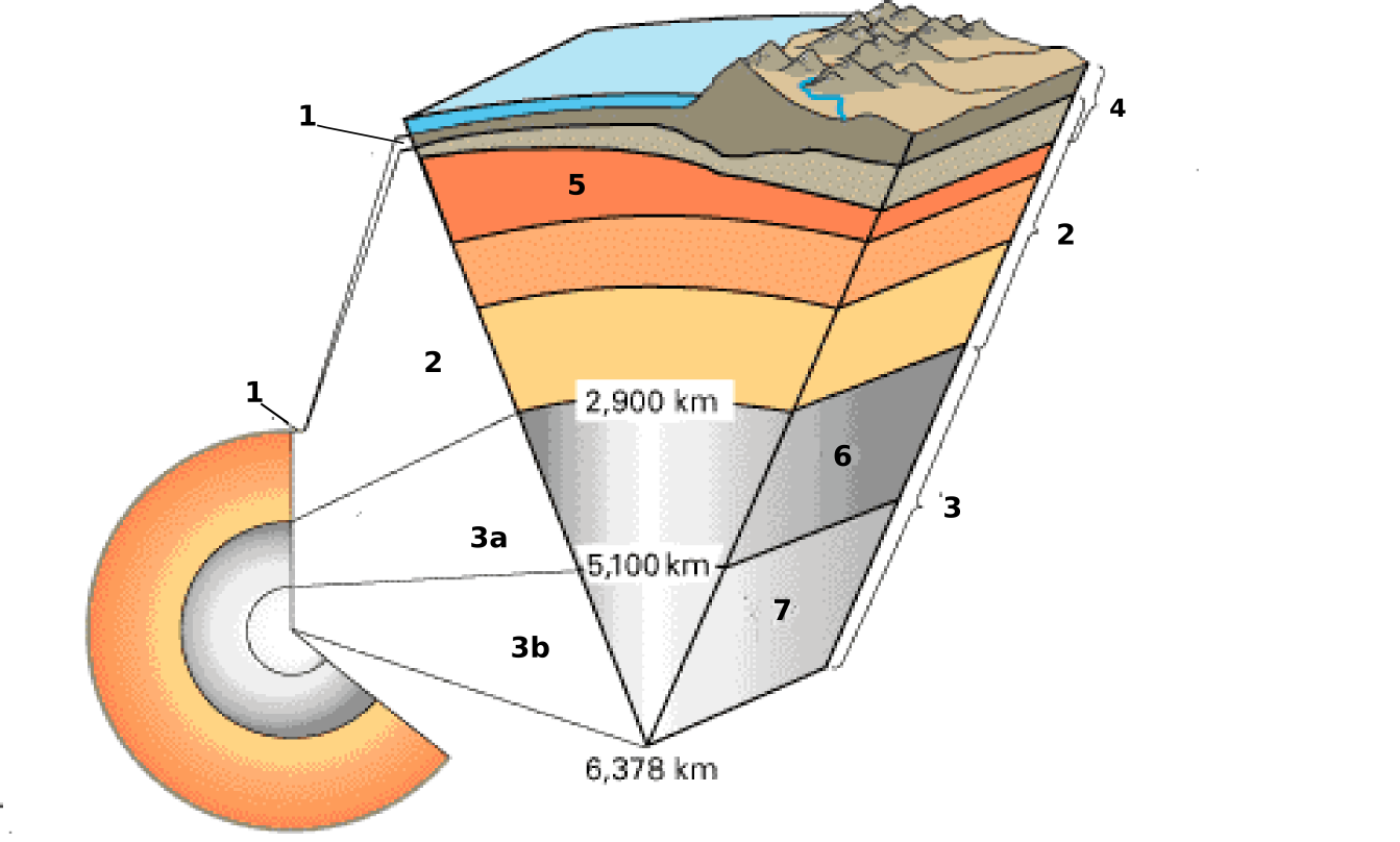 Internationalization of the FigS1-1.gif. Label: 1=Crust (oceanic and continental crust 0 to 80 km);2=Mantle (upper mantle, including asthenosphere, and lower mantle); 3-Core; 3a=Outer core; 3b=Inner core; 4=Lithosphere (Crust and upper-most solid mantle); 5=Asthenosphere; 6=Outer core liquid; 7=Inner core solid.